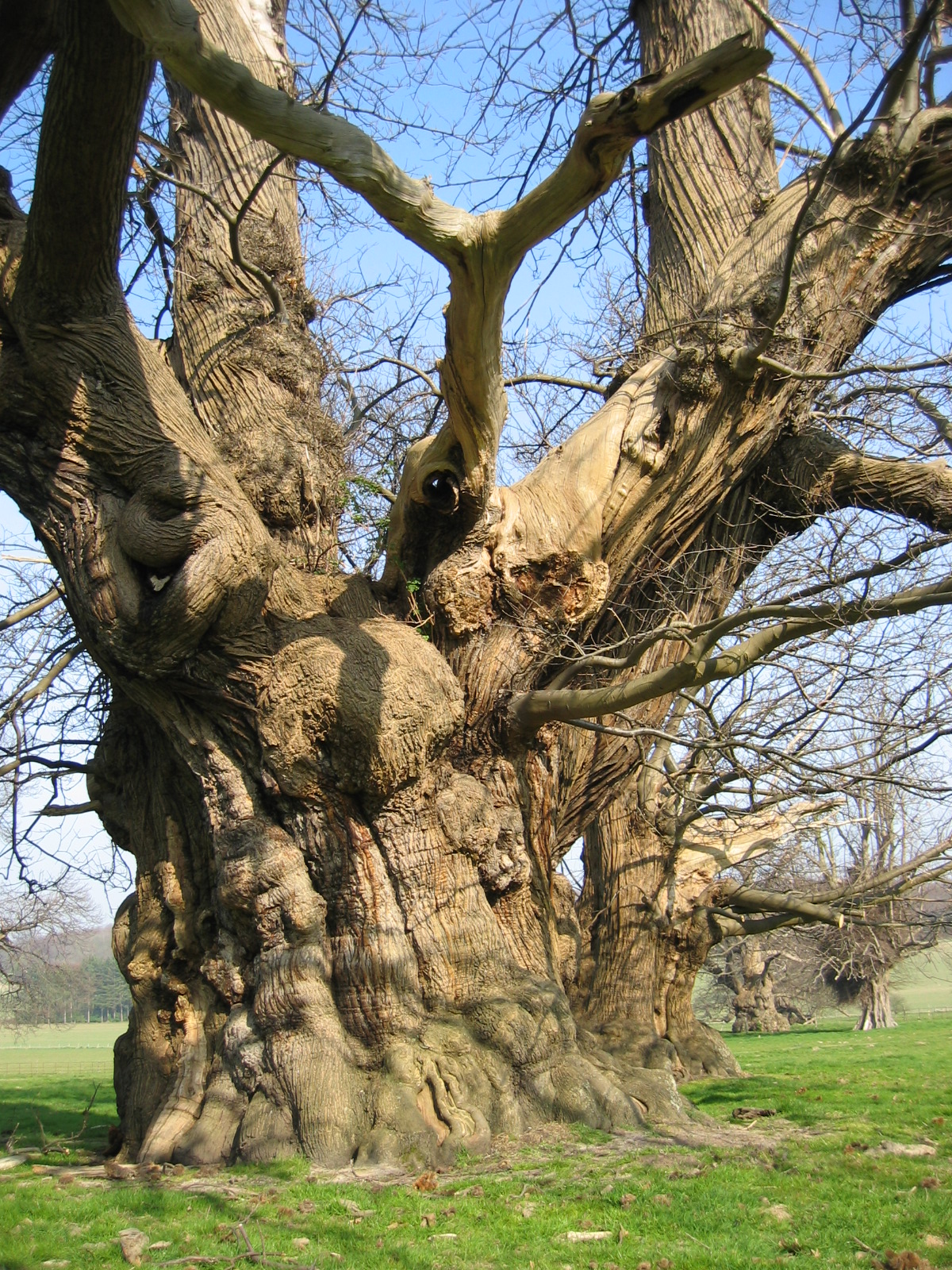 Three sweet chestnuts (Castanea sativa) in Fredville Park, Nonington (Kent), UK. The smaller tree on the right is a large-leaved lime (Tilia platyphyllos) with sprouting. The thickest one of this group has a girth at breast height of 9.7 metres. Picture made by Tim Bekaert.